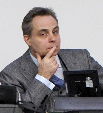 Coicaud at WIDER Annual Lecture 14 Reforming the International Monetary and Financial Architecture.